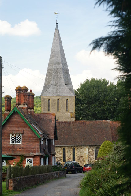 Shere, Surrey, near to Shere, Surrey, Great Britain. Looking down Church Hill, past Church Cottage, towards the church.